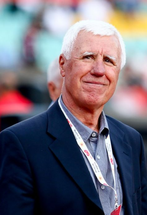 Asparuh "Paro" Nikodimov (born 21 August 1945 in Sofia) is a former Bulgarian footballer and later coach. He represented Bulgaria at the FIFA World Cups in 1970 and 1974.